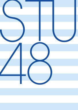 STU48 Logo